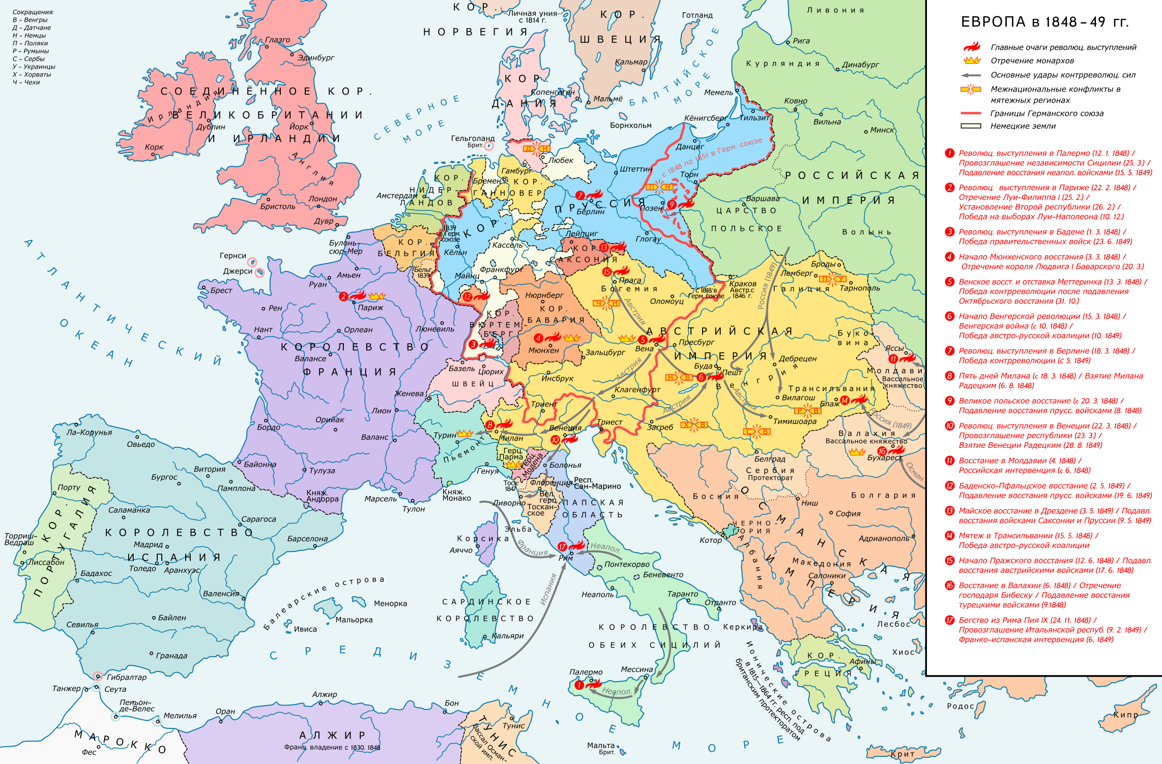 Europe 1848-49. Historical map with main revolutionary centres, important reactionary troop movements, states with abdications and national conflicts. Please don't alter the map, when you think there something not written or depicted correctly. Leave a message at the talk page of the file. After a verificiation and a possible discussion, i will upload a new map version with all new changes. This prevents an unnecessary waste of disc space and ensures a good result, aesthetically and contentwise. - The author.